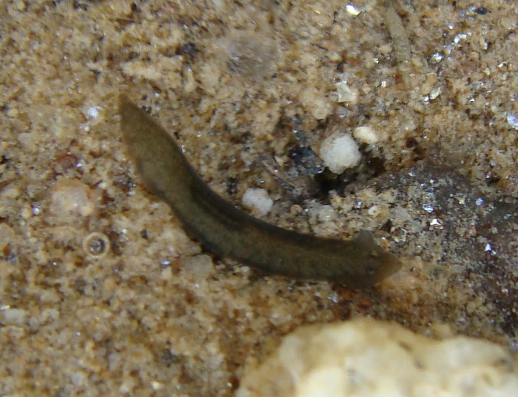 Living specimen of Dugesia improvisa from Naxos, Greece.